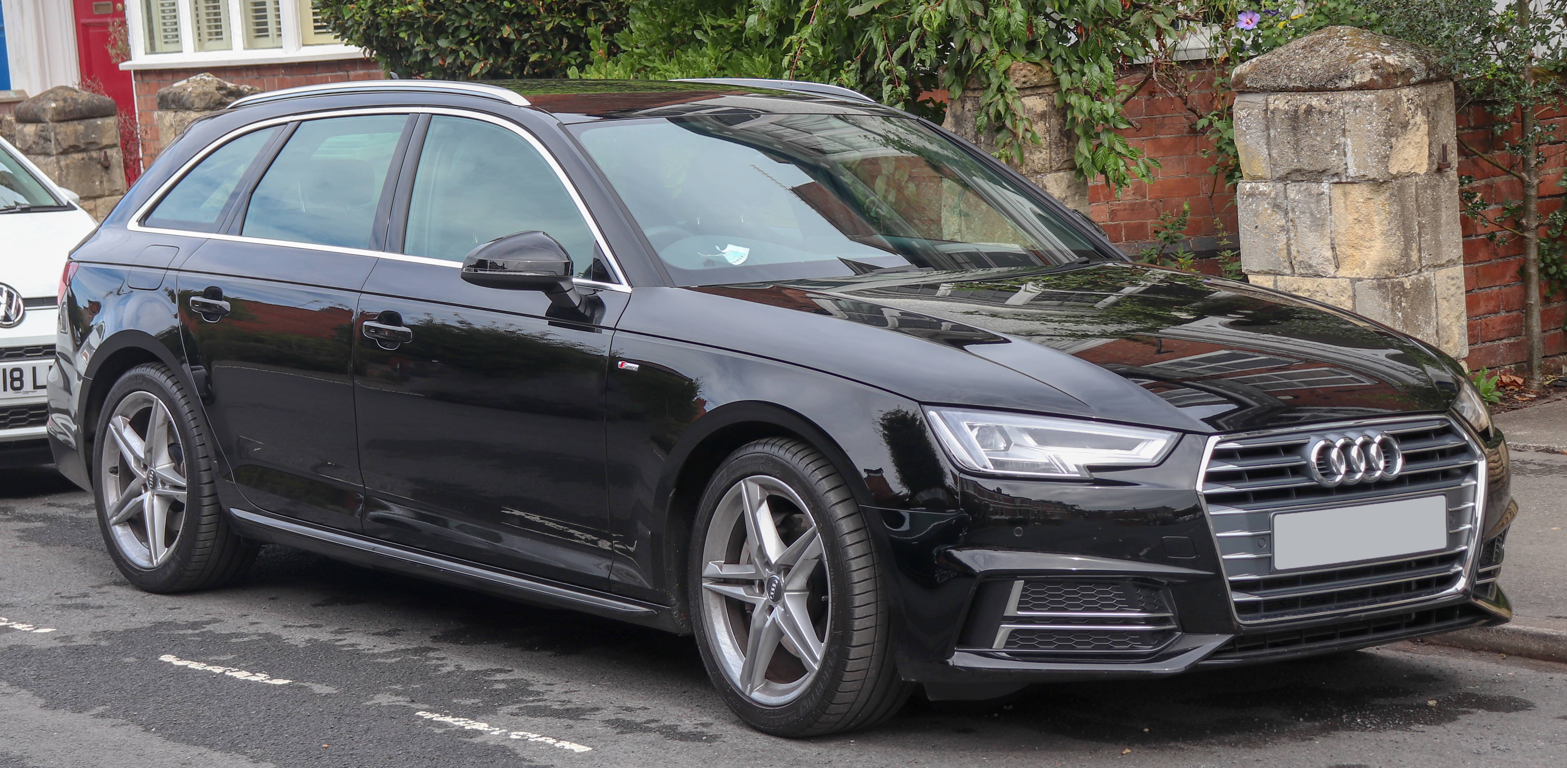 2018 Audi A4 Avant S Line TDi S-A 2.0 Front Taken in Leamington Spa